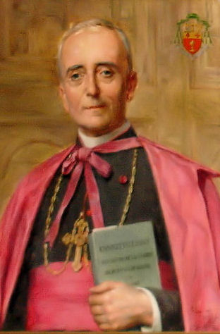 Mgr. Van Rechem